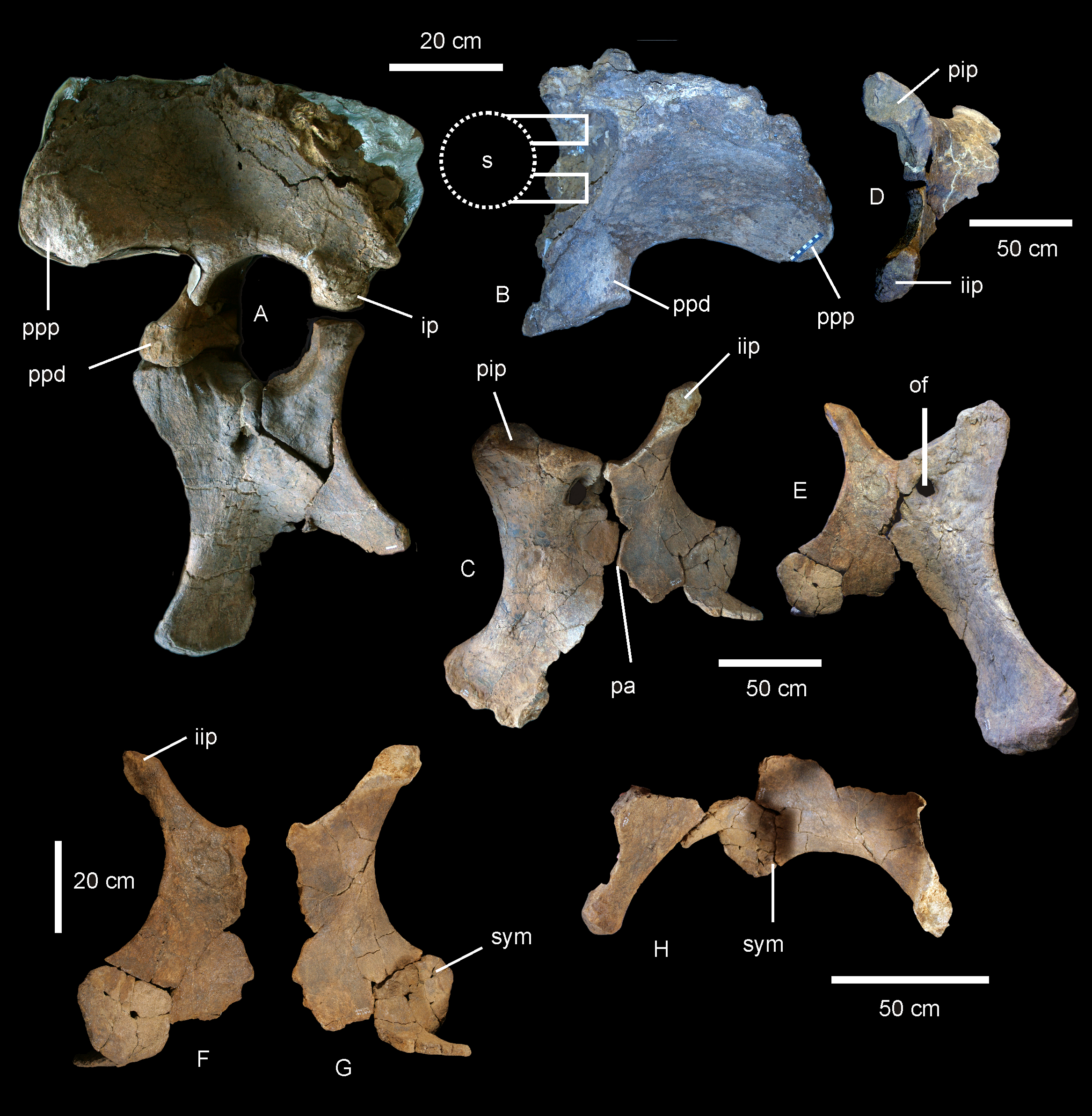 Pelvis of Diamantinasaurus matildae. Left reconstructed pelvis in lateral (A) view. Left ilium in anterior view (B) showing the position of the sacral vertebrae. Right pubis and ischium in medial (C), proximal (D) and lateral (E) views. Right ischium in lateral (F) and medial (G) views. Reconstructed right and left ischia in dorsal view. Abbreviations: ip, ischial peduncle; iip, iliac peduncle of ischium; of, obturator foramen; pa, pubio-ischial contact; pip, iliac peduncle of pubis; ppd, pubic peduncle; ppp, preacetabular process of ilium; s, sacrum; sym, fused ischial symphysis.